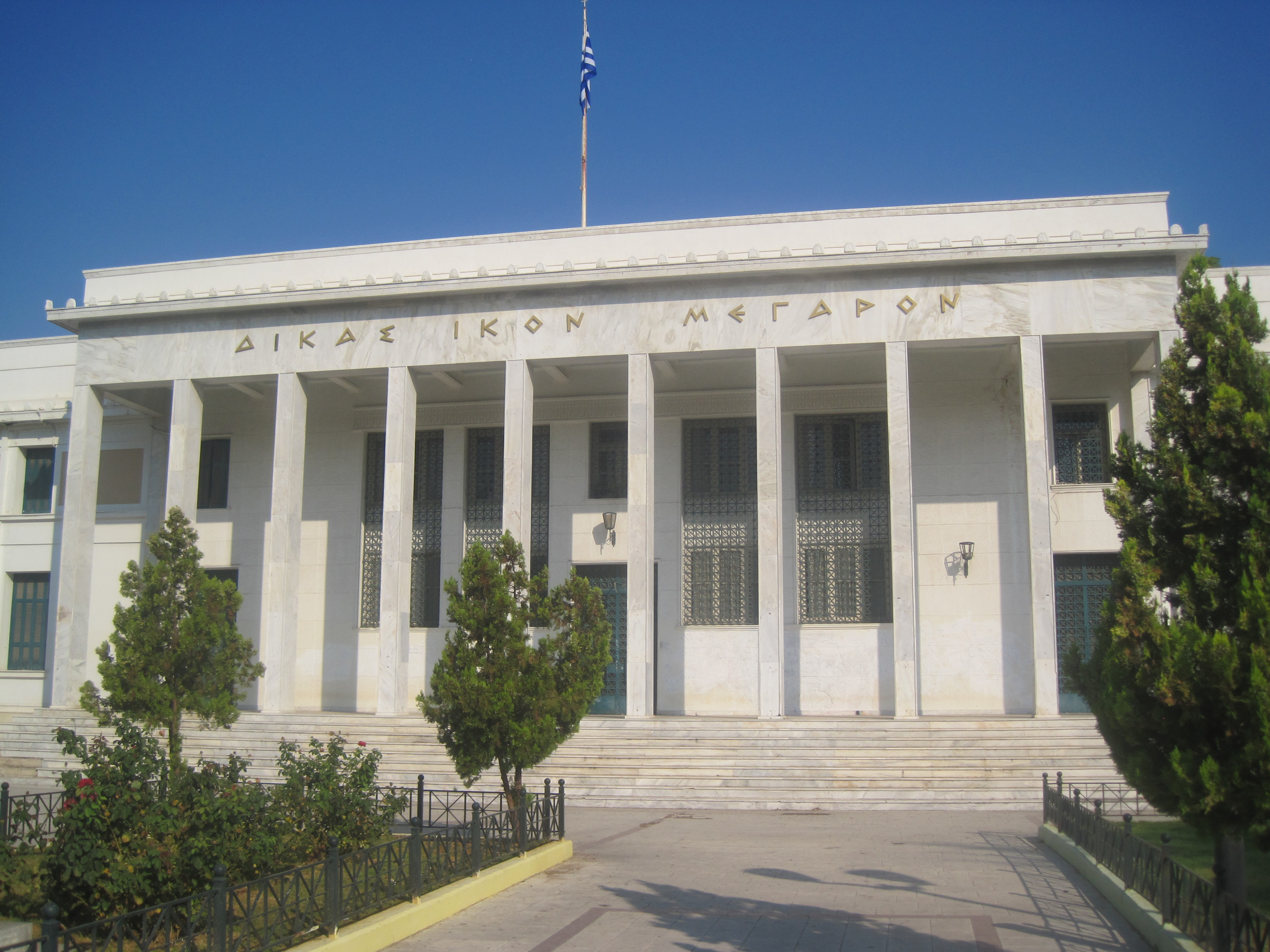 Corinth